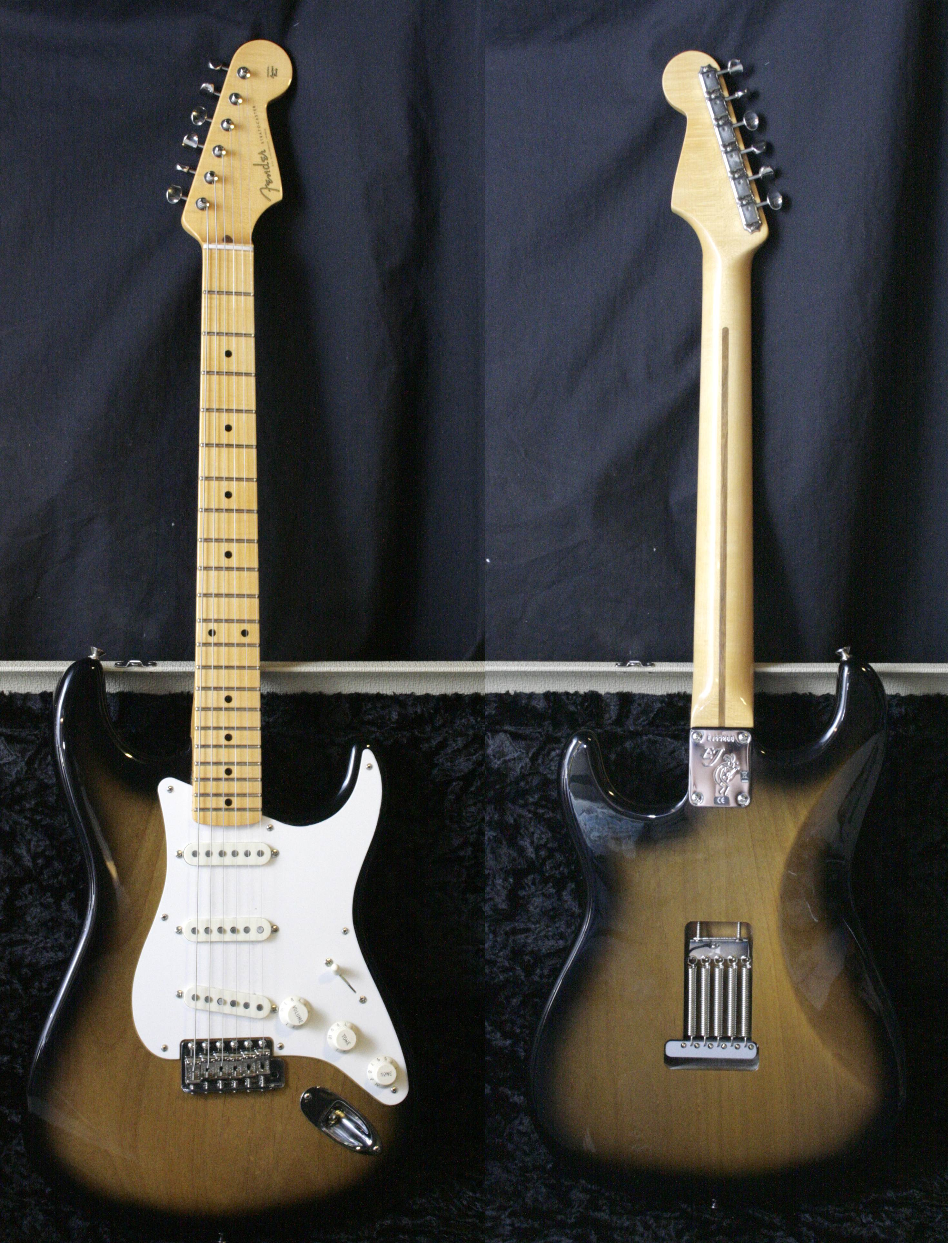 Fender Stratocaster electric guitar. Eric Johnson signature model.